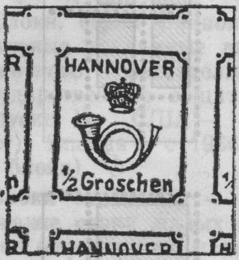 Stamps of Germany, Kingdom of Hanover. Little 9-Block.